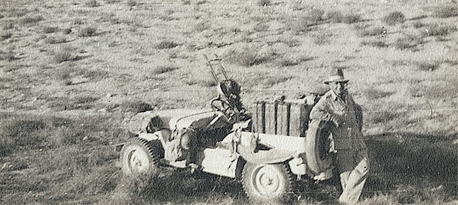 "Popski and his Jeep. Major Peniakoff during Operation Caravan Category:Groups of World War II Category:Special forces of New Zealand Category:Special forces units and formations Category:Military units and formations established in 1940 Long Range Desert Group Long Range Desert Group